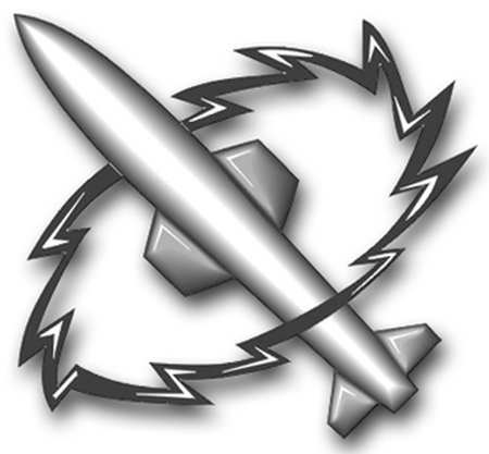 US Navy Missile Technician (MT). A guided missile surrounded by an electronic wave.